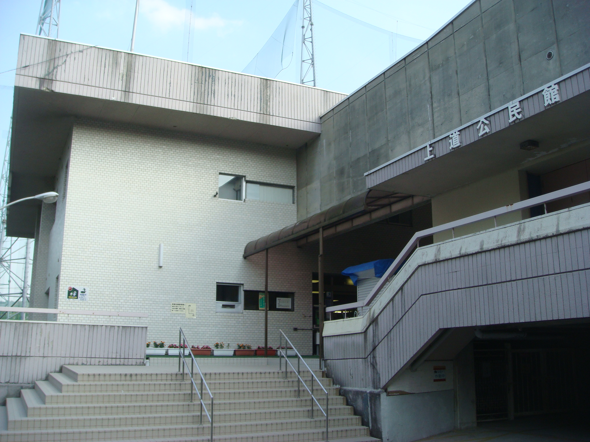 Okayama Munisipal Joto Kominkan